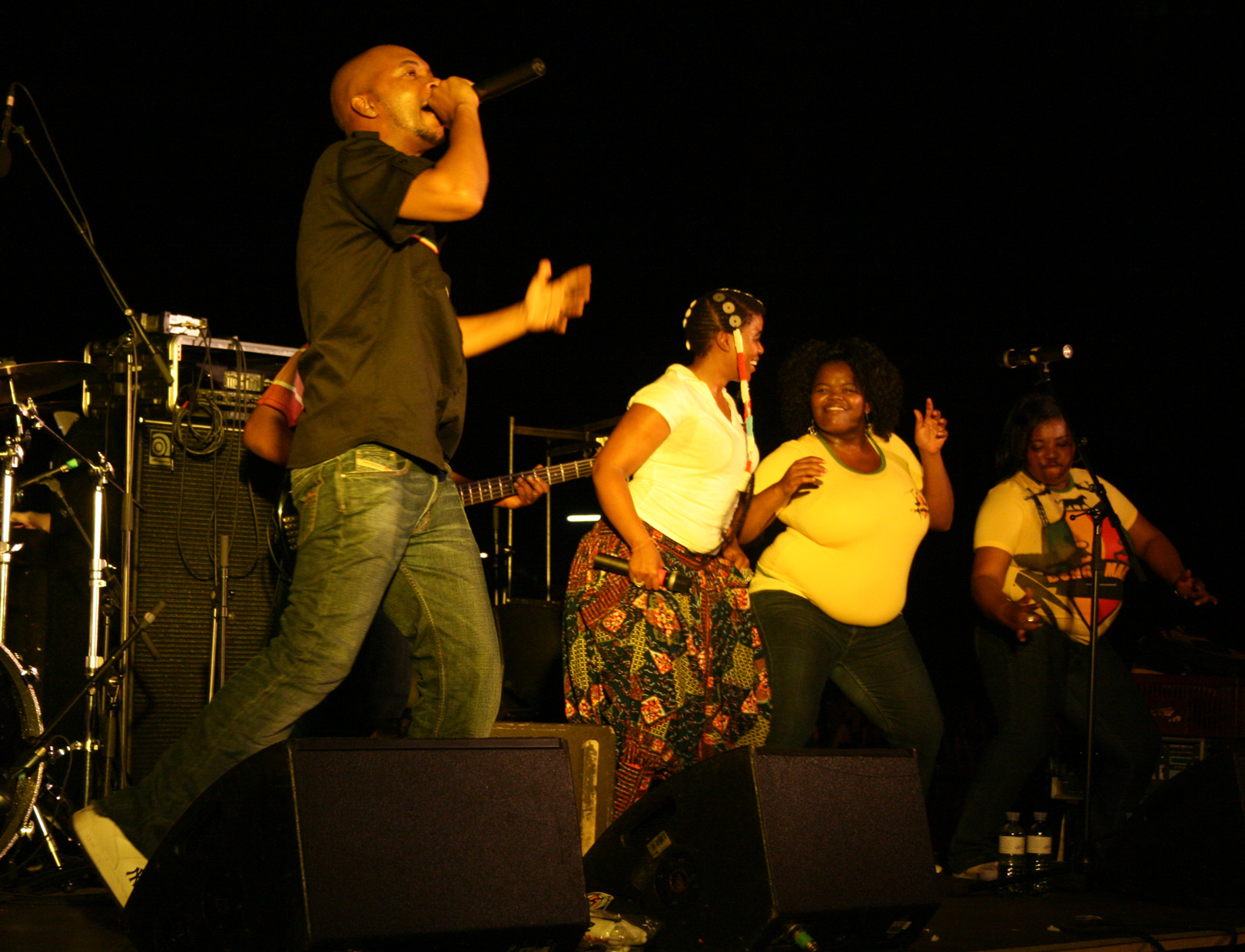 South African kwaito-band Bongo Maffin; performance at a presentation of the nine host-cities of the 2010 FIFA World Cup in South Africa during the UEFA Euro 2008 in Vienna (Austria).